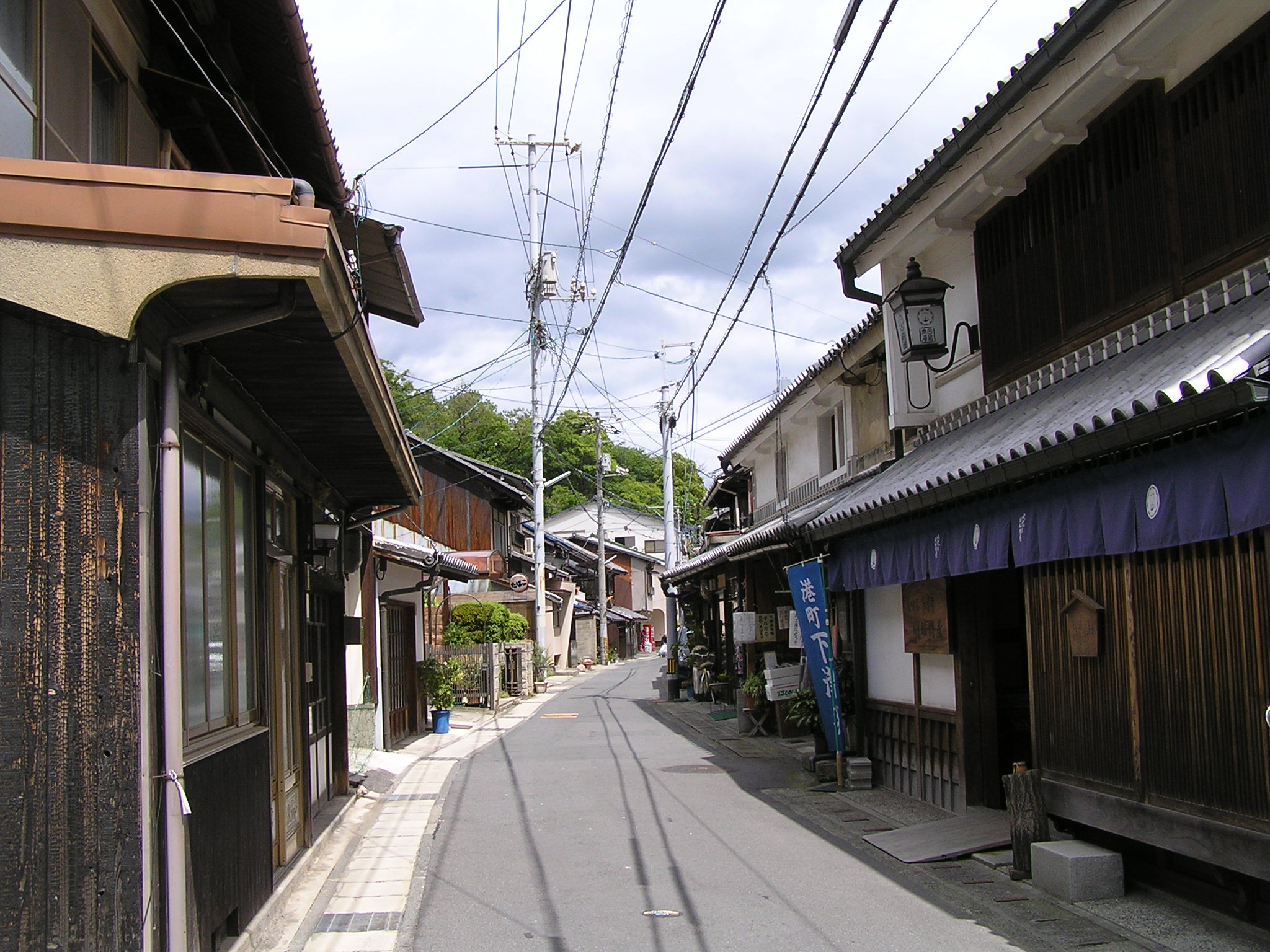 Street of Shimotsui, Kurashiki